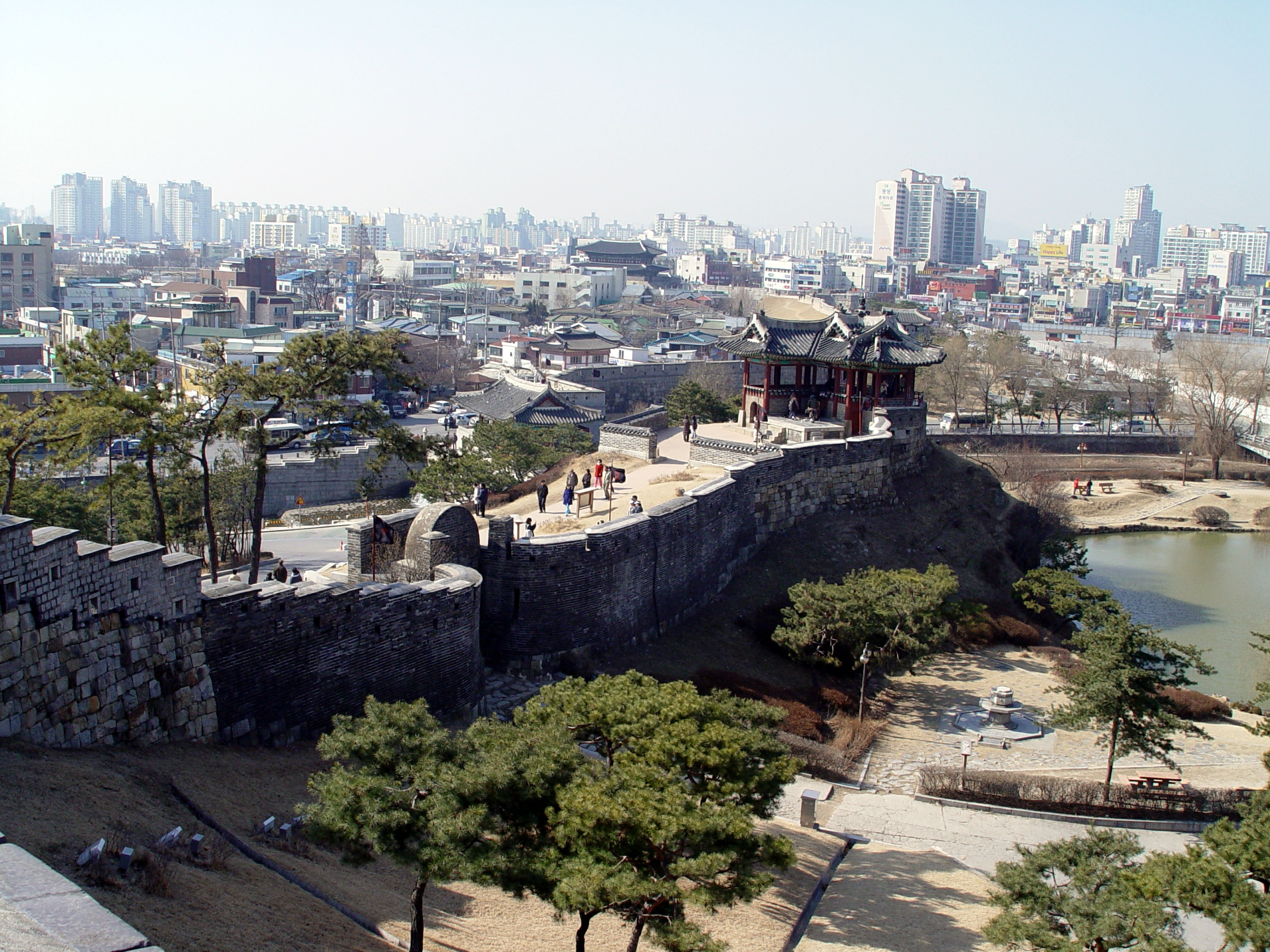 Third North Secret Gate and North-East Pavilion, Hwaseong Fortress, Suwon, South Korea